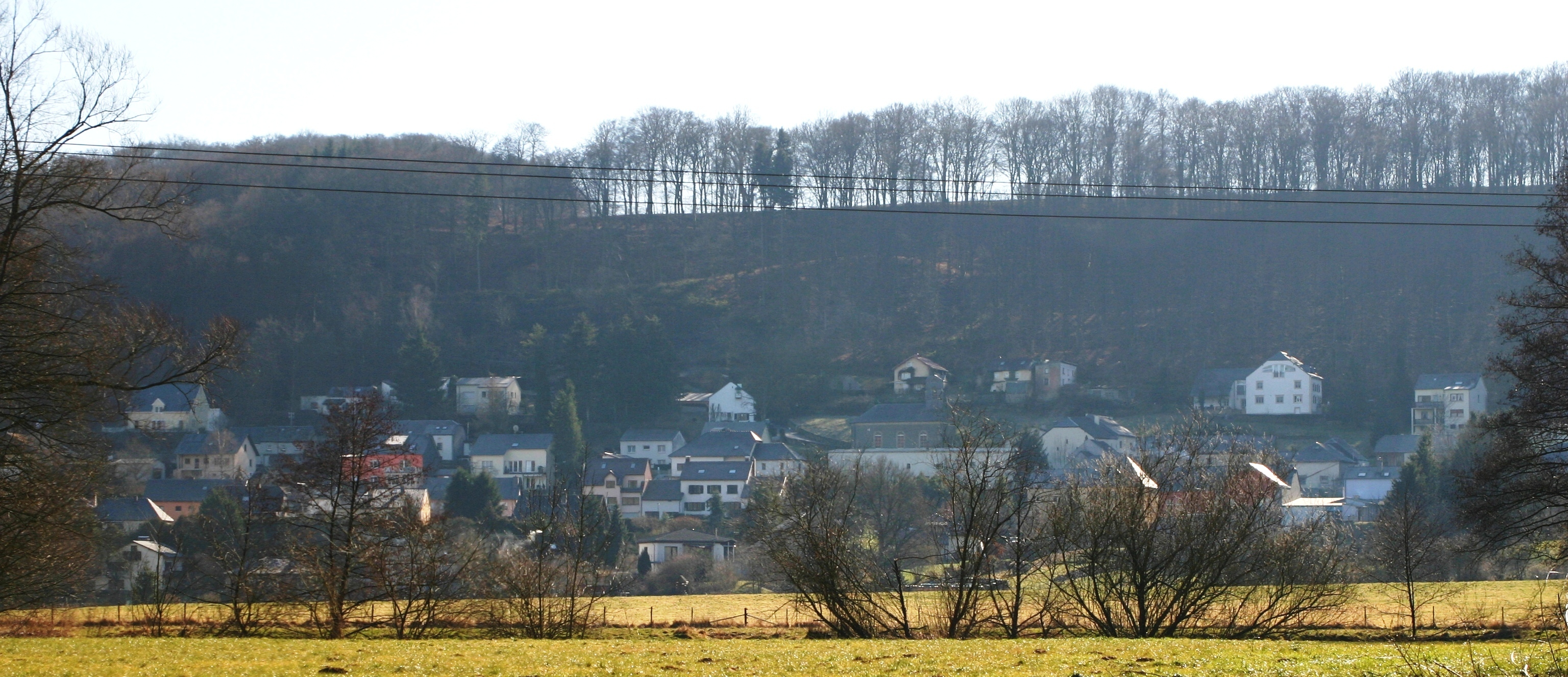 The village of Roodt (Luxembourg, commune of Septfontaines) as from the banks of the river Eisch.